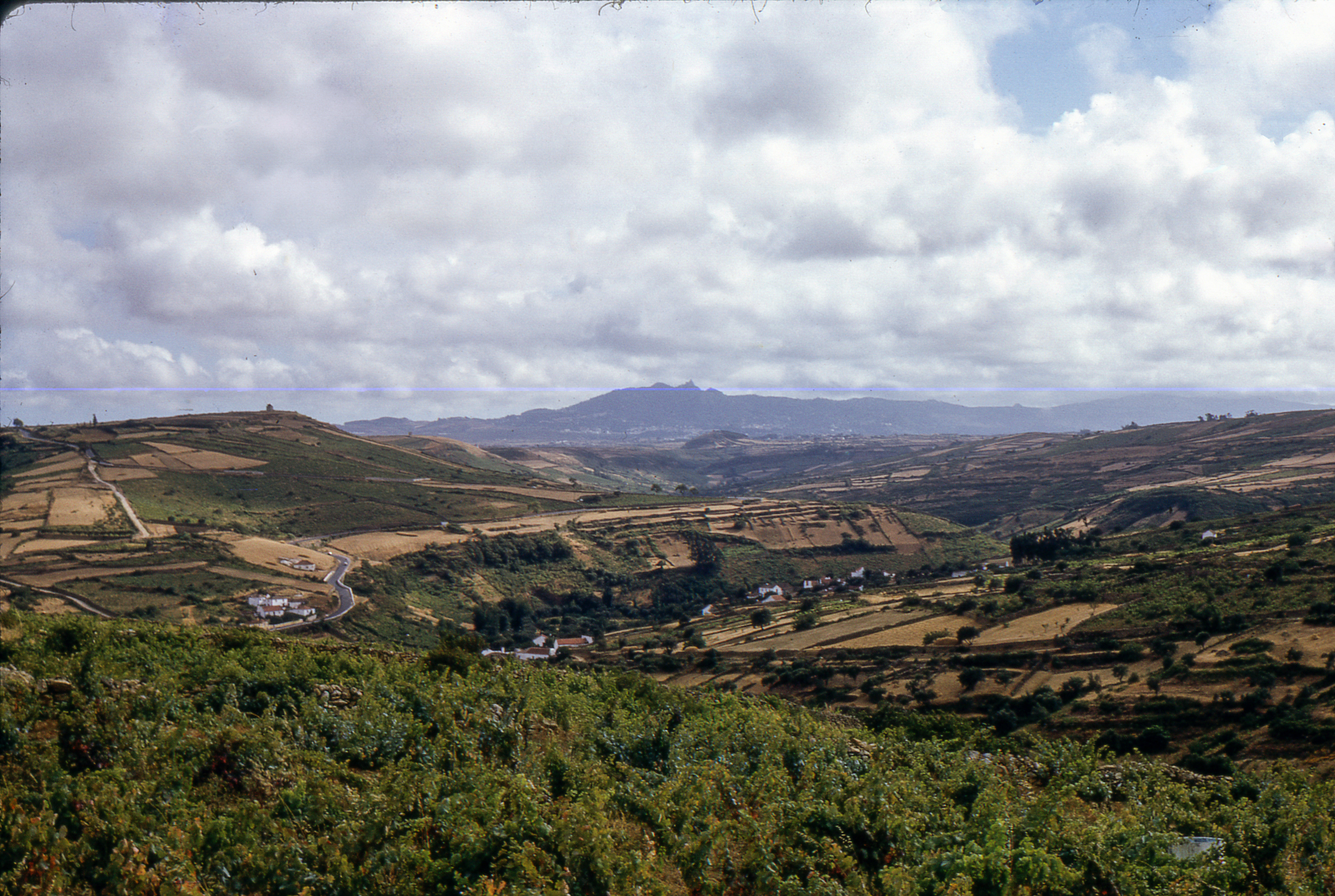 Massif of Estoril o, the road from Mafra to Sintra.